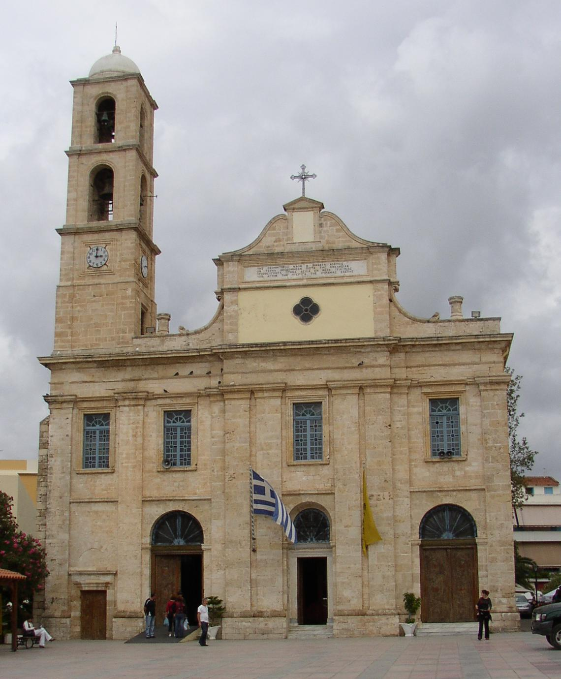 Orthodox Cathedral in Chania, Crete, Greece